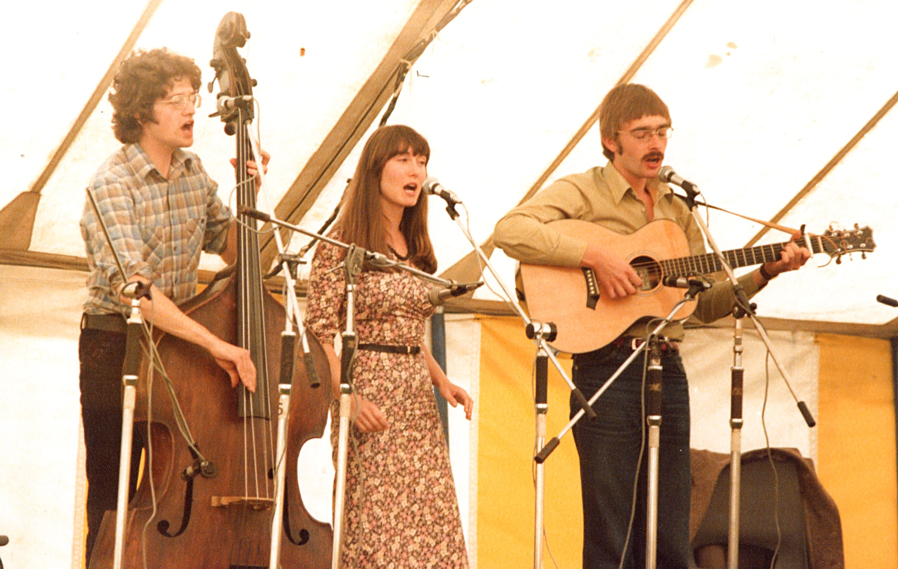 Spredthick, UK folk group on stage at the 1980 Towersey Festival. L-R: Phil Fentimen, double bass); Hilary James, vocal; Simon Mayor, guitar (Tony Rees photograph)